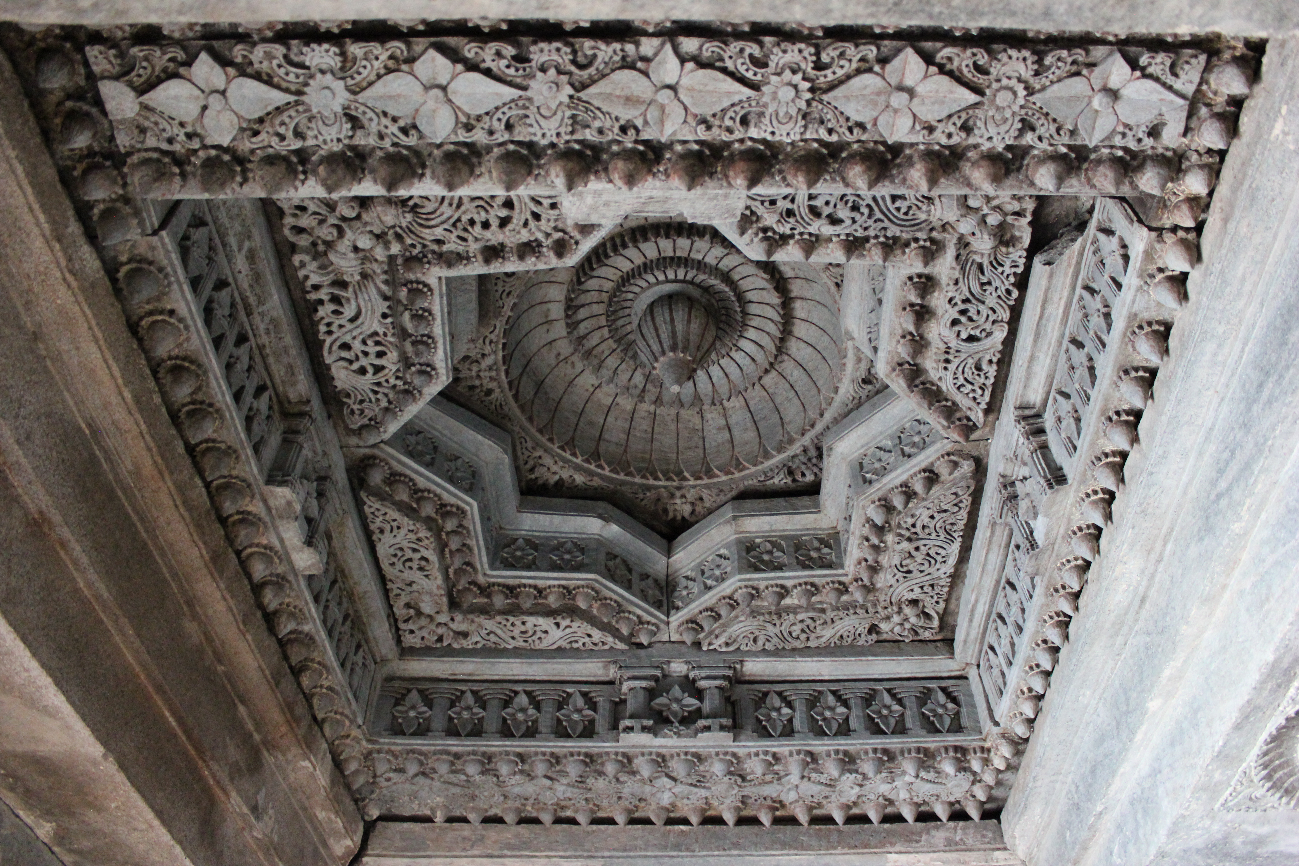 This photograph was taken at the Akkana Basadi in Shravanabelagola, in the Hassan district of Karnataka state, India. The temple was constructed by during the rule of the Hoysala King Veera Ballala II (1182 A.D.)